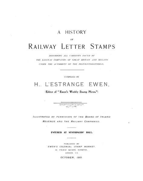 Cover of the book: A History of Railway Letter Stamps; Describing All Varieties Issued by the Railway Companies of Great Britain and Ireland Under the Authority by H. L'Estrange Ewen (reprint of 2010, General Books).